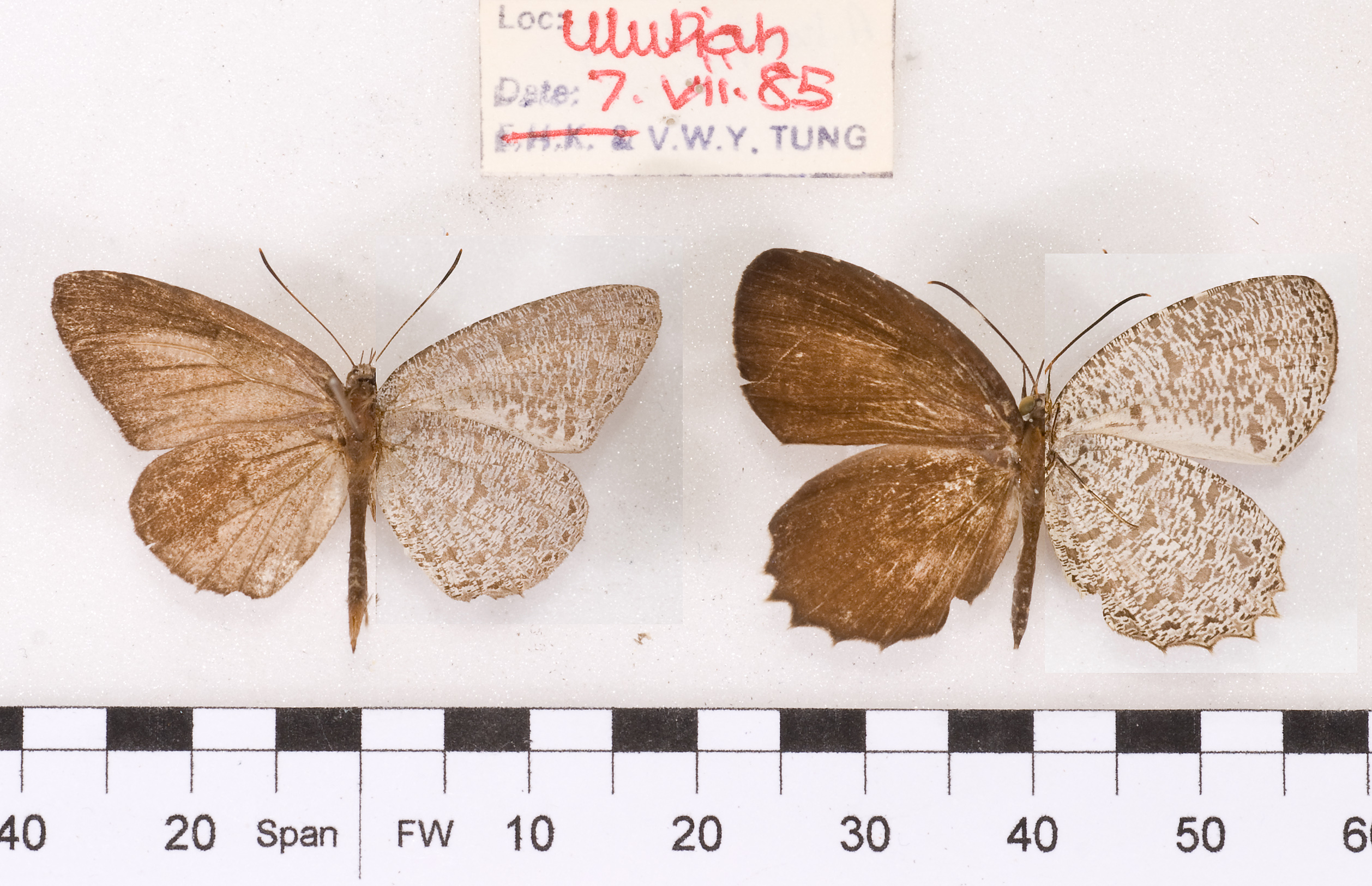 Allotinus horsfieldi permagnus, male, female, Sumatra, Alan Cassidy photo.